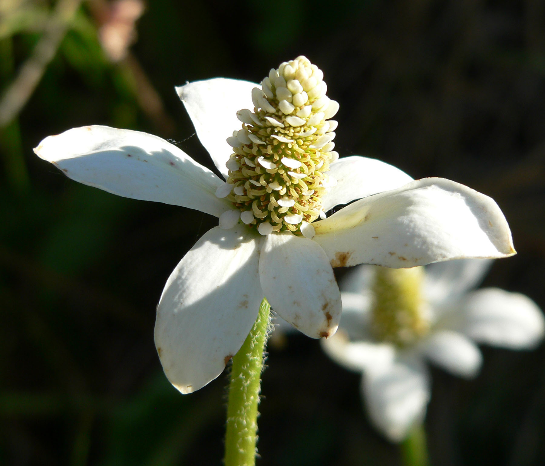 Anemopsis californica in Calico Basin, west of Las Vegas, Nevada